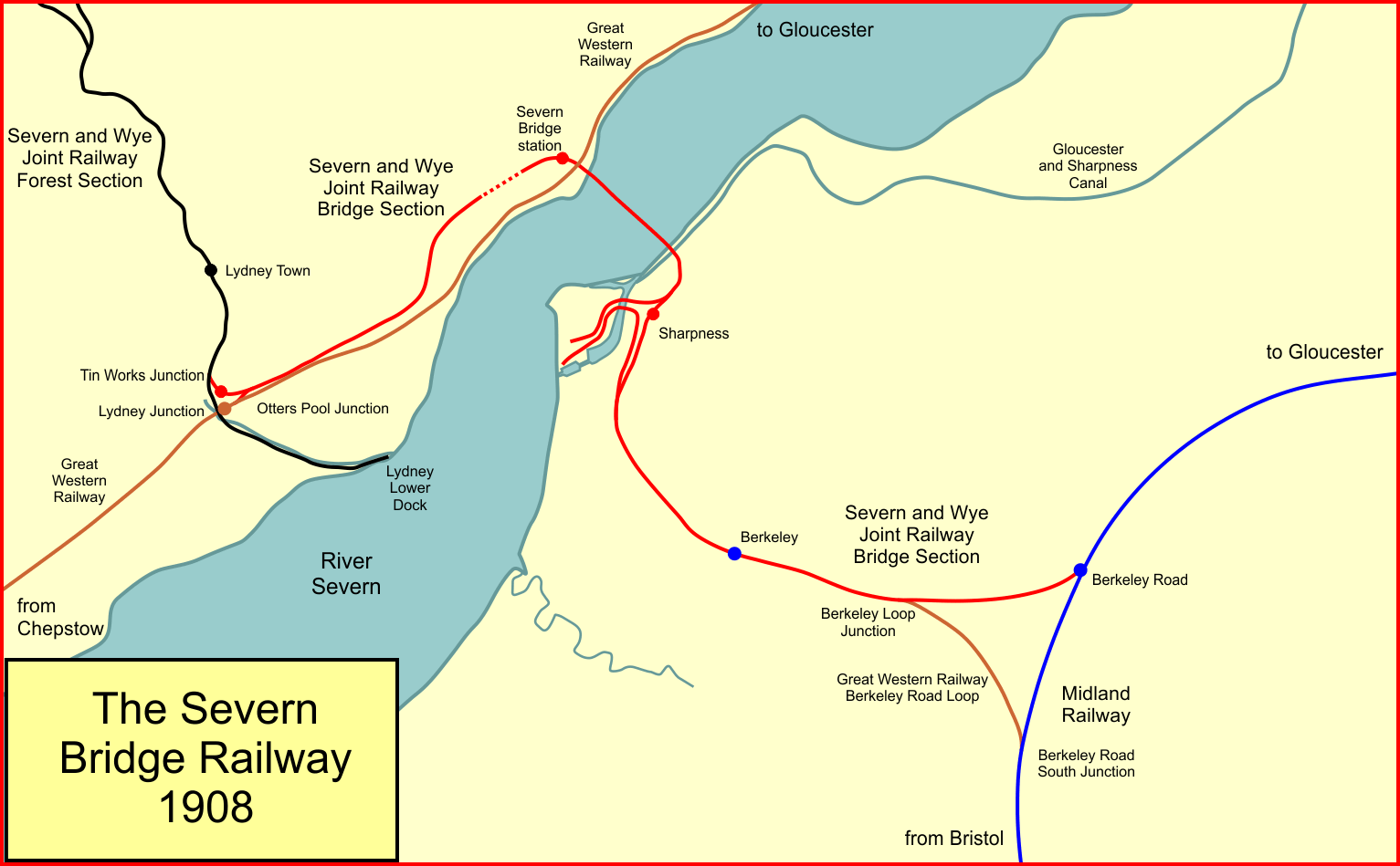 System map of the Severn Bridge Railway, England, in 1908